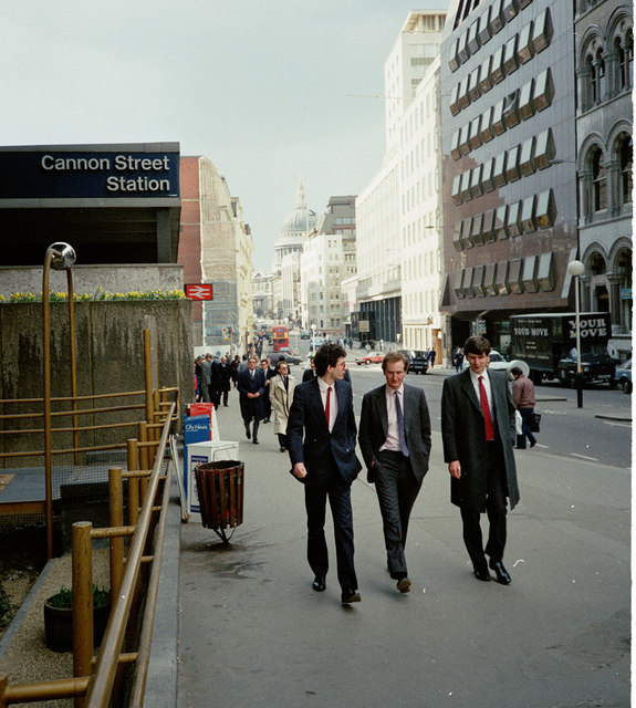 Cannon Street Photo taken March 1987 near Cannon Street Station looking West towards St. Paul's.